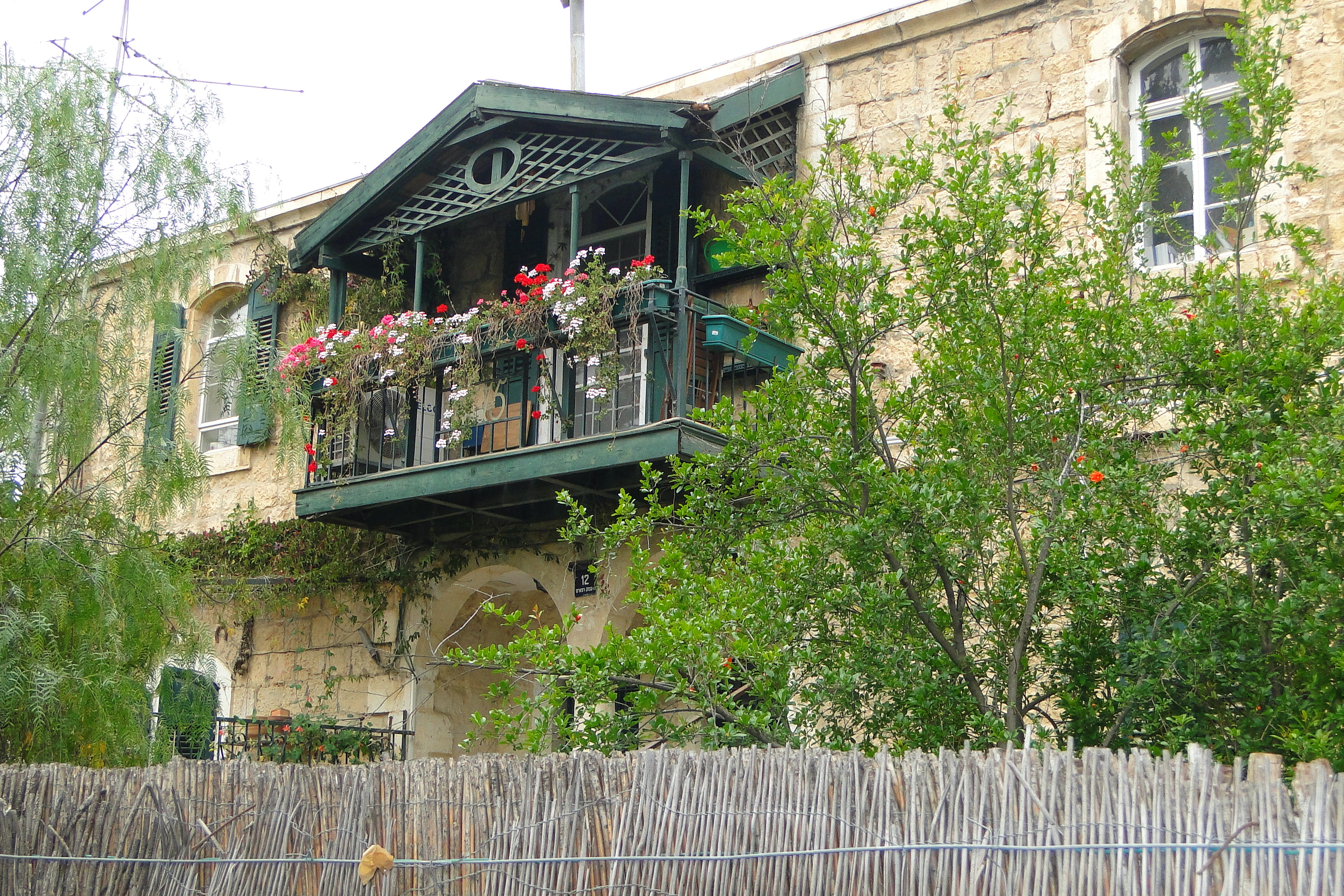 Architecture in the German Colony - Jerusalem, 12 Emek Refaim - Israel - 01 Architecture in the German Colony - Jerusalem - Israel - 01 (5681306162).jpg